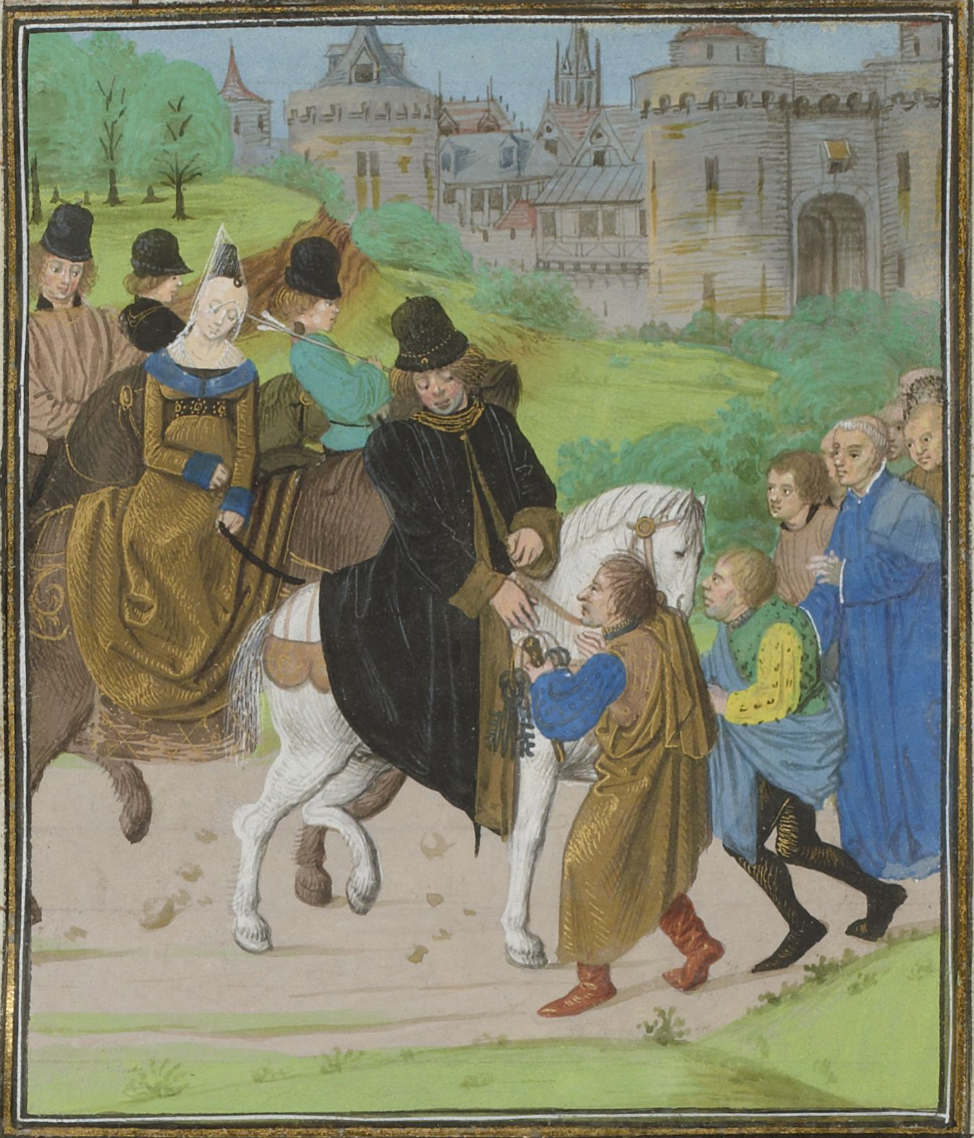 Surrender of Santiago de Compostela to John of Gaunt